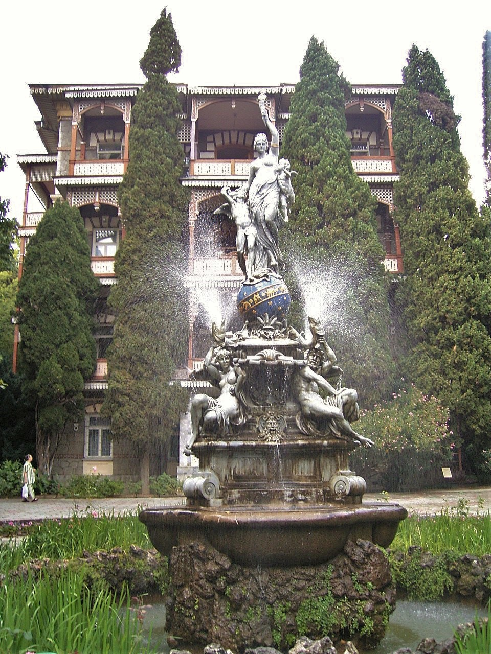 "Goddess Of Night" Fountain, Gurzuf, Crimea, Ukraine Author: Alexander Noskin Date: 8-21-05